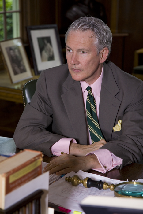 Philip Bobbitt, American law professor and author